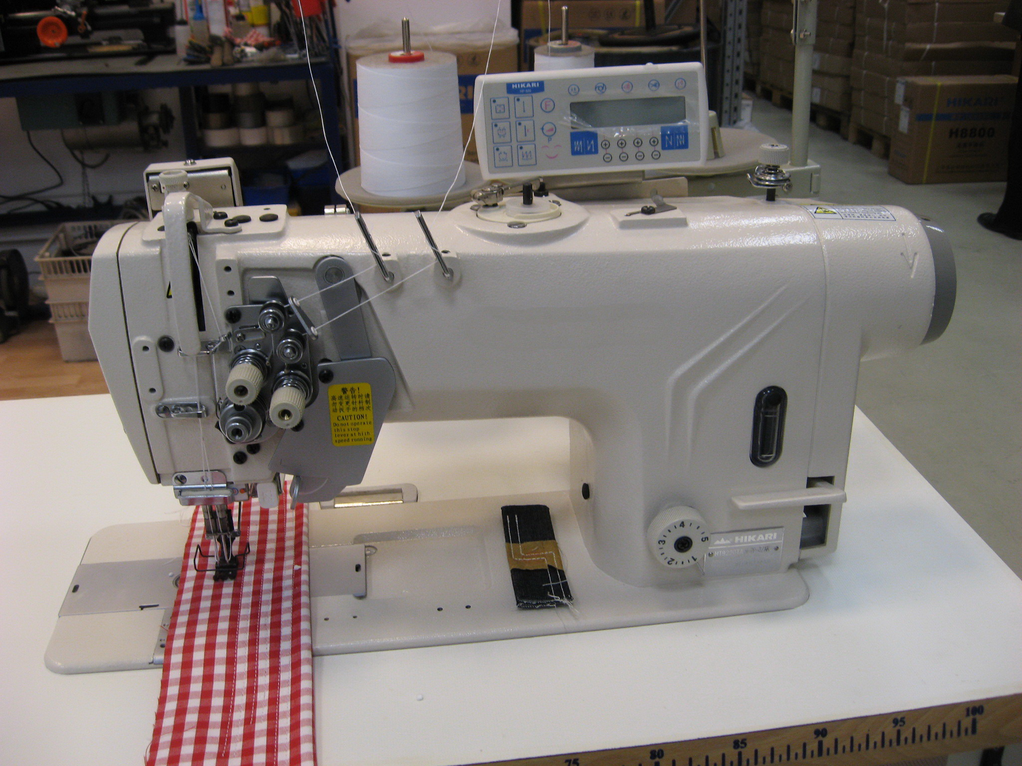 Modern, programmable industrial sewing machine